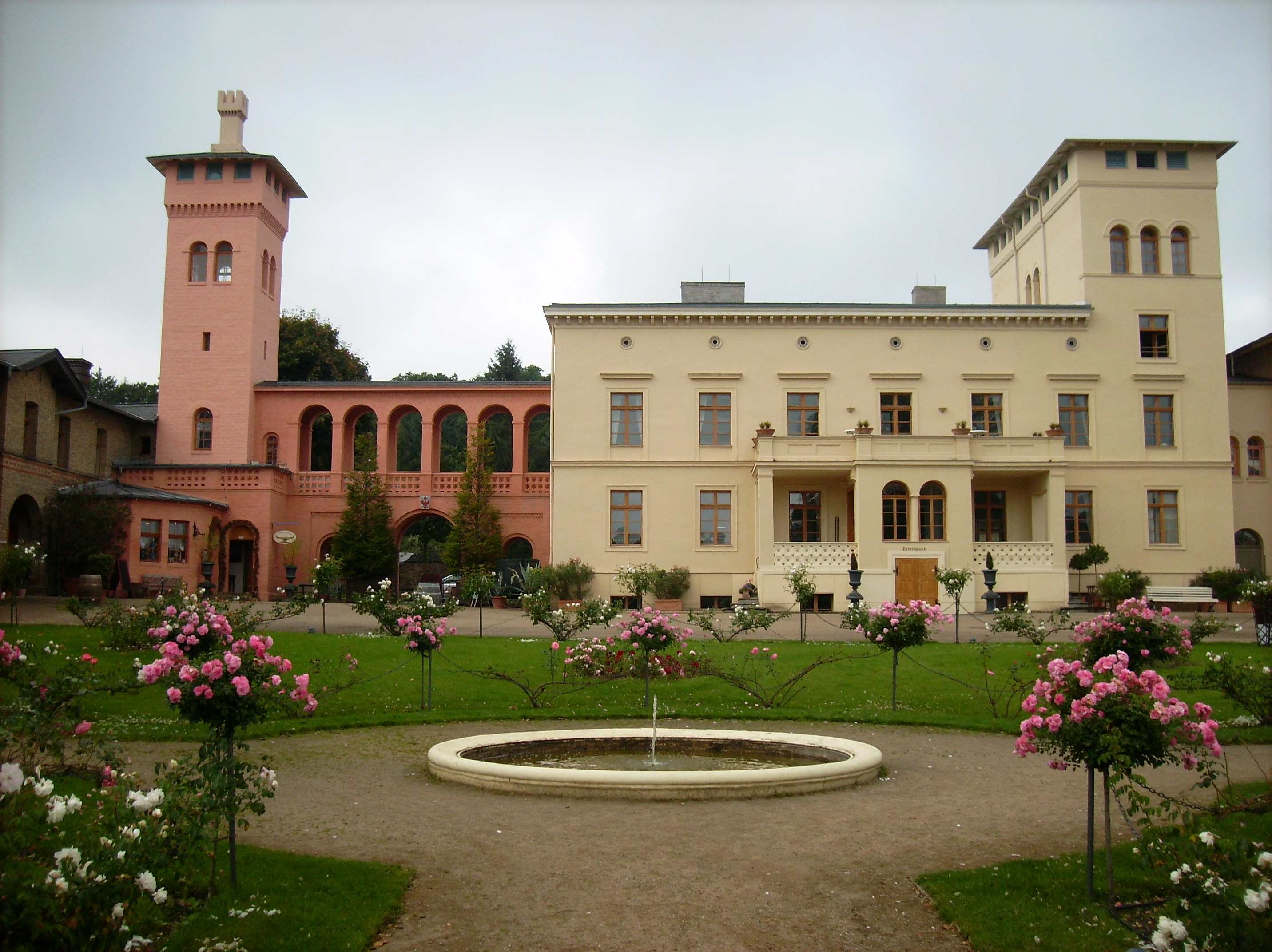 Bornstedt Crown estate (Potsdam), west side